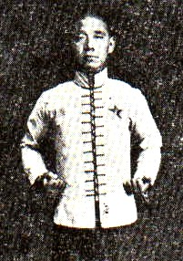 Huo Yuanjia